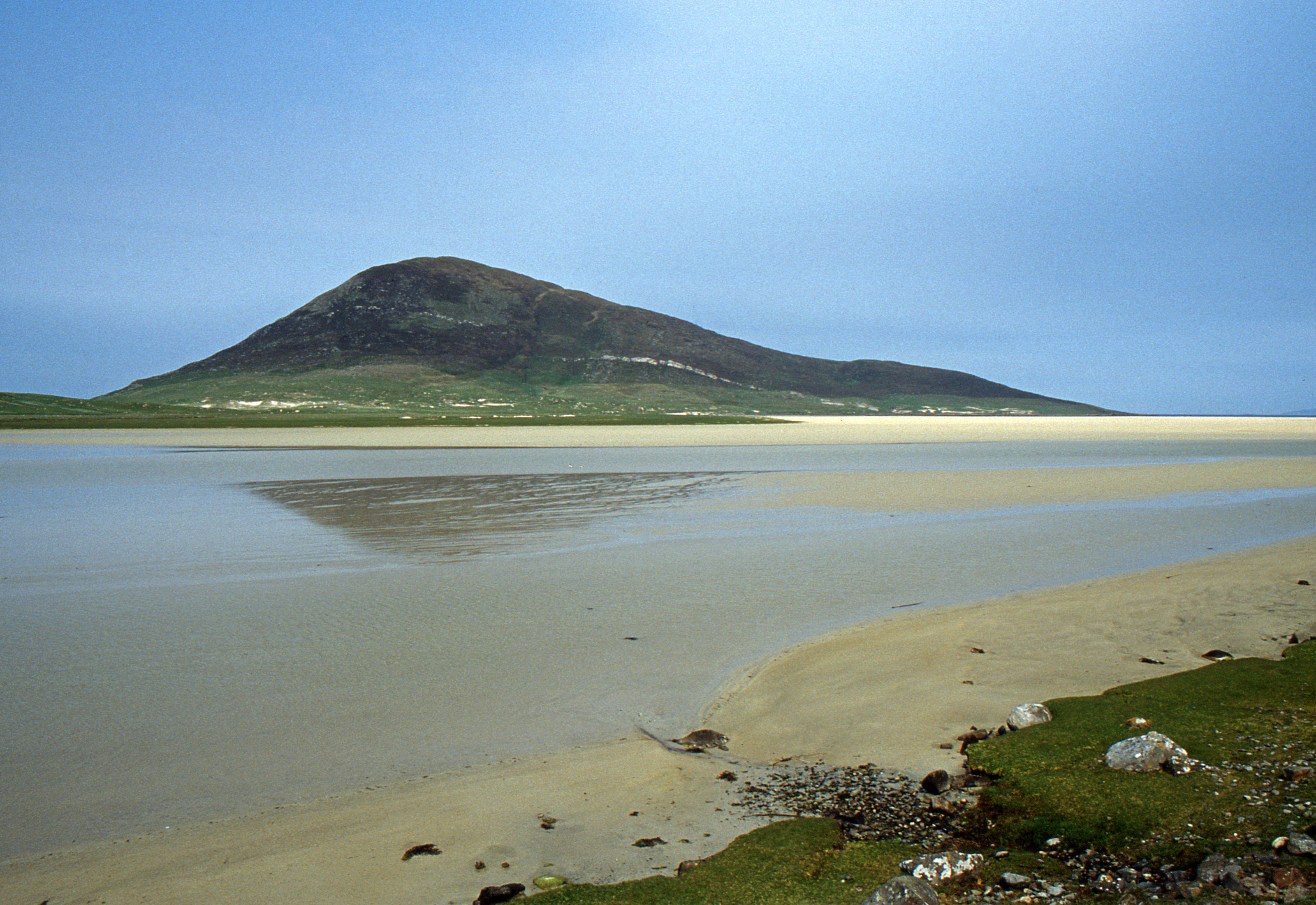 Ceapabhal - Isle of Harris, Scotland, UK